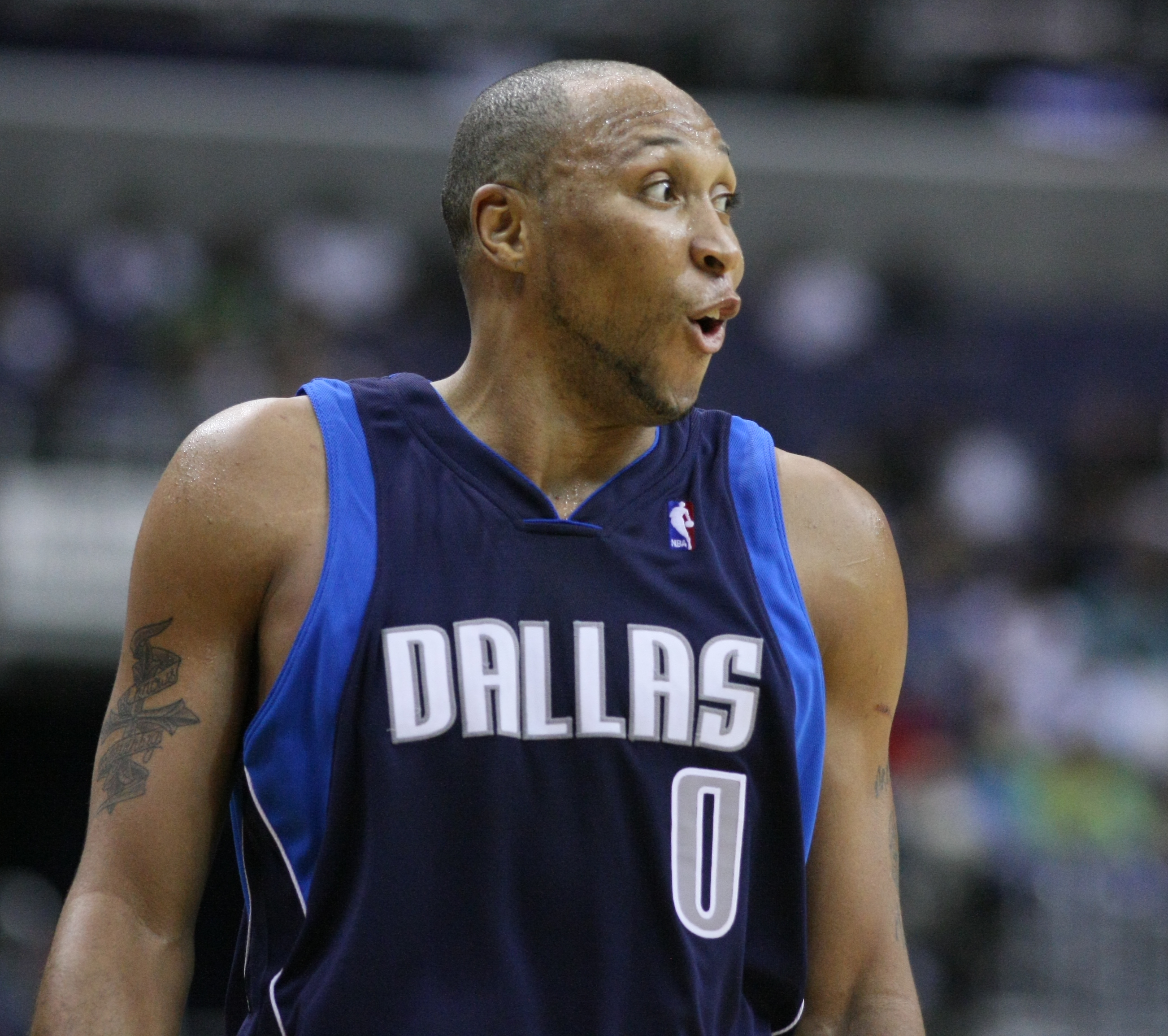 Shawn Marion